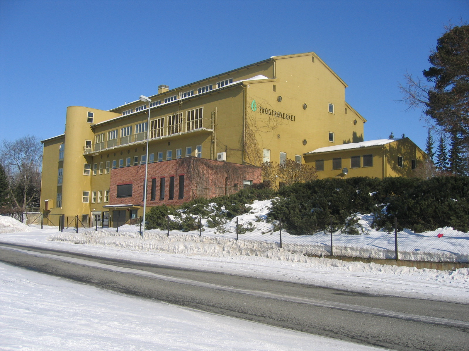 Norwegian Forest Seed Center located in Hamar, Norway.